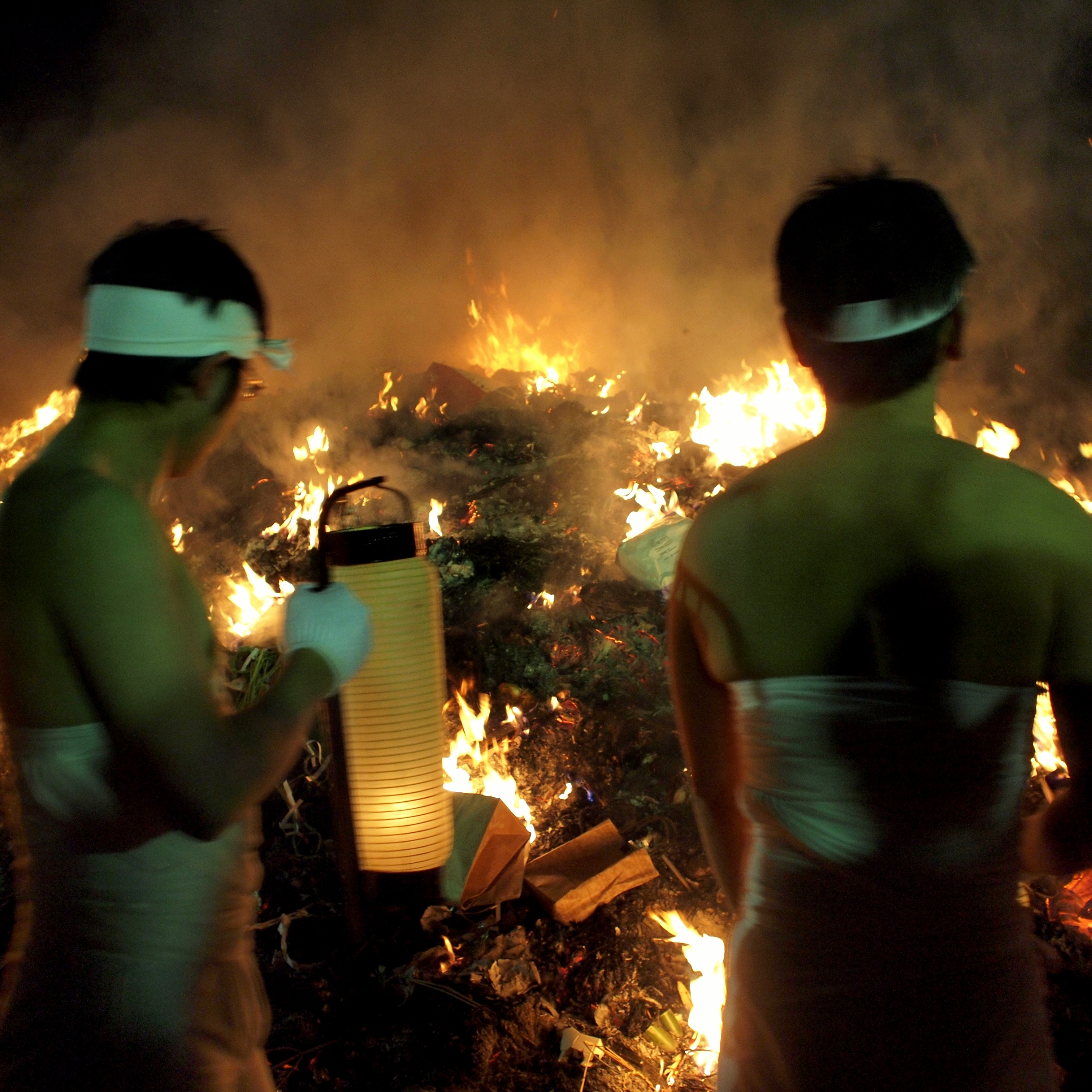 The Matsutaki Matsuri/Dontosai Festival at Osaki Hachimangu Shrine.